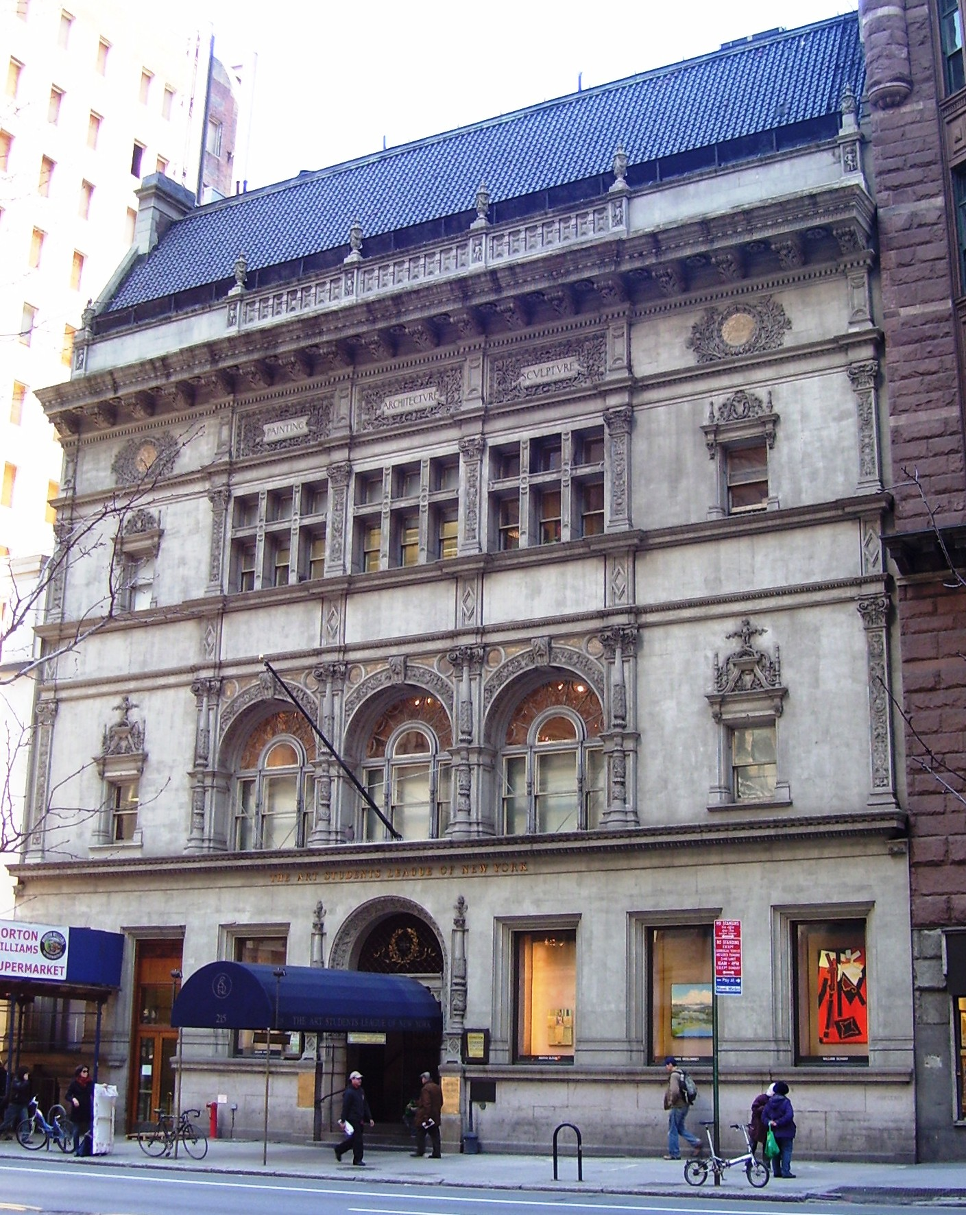 The Arts Students League Building at 215 West 57th Street, between 7th Avenue and Broadway in Midtown Manhattan, New York City, was built in 1891-92 as the American Fine Arts Society, and was designed by Henry J. Hardenbergh with W.C. Hunting & J.C. Jacobsen in French Renaissance Revival style. Hardenbergh based the design on a 16th century hunting lodge built by Francis I. The American Fine Arts Society was comprised of the New York Architectural League, the Society of American Artists and the Art Students League, who joined together to raise the money necessary to put up this building, with galleries and offices for all three organizations. Only the Art Students League uses it now. (Sources: Guide to NYC Landmarks (4th ed.) and AIA Guide to NYC (4th ed.))